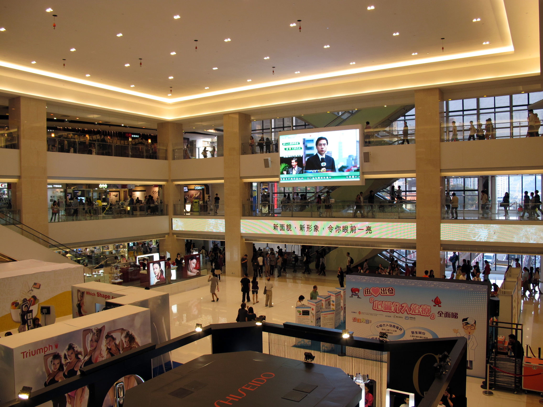 Tuen Mun Town Plaza Main Void 屯門市廣場主中庭 (2011年)